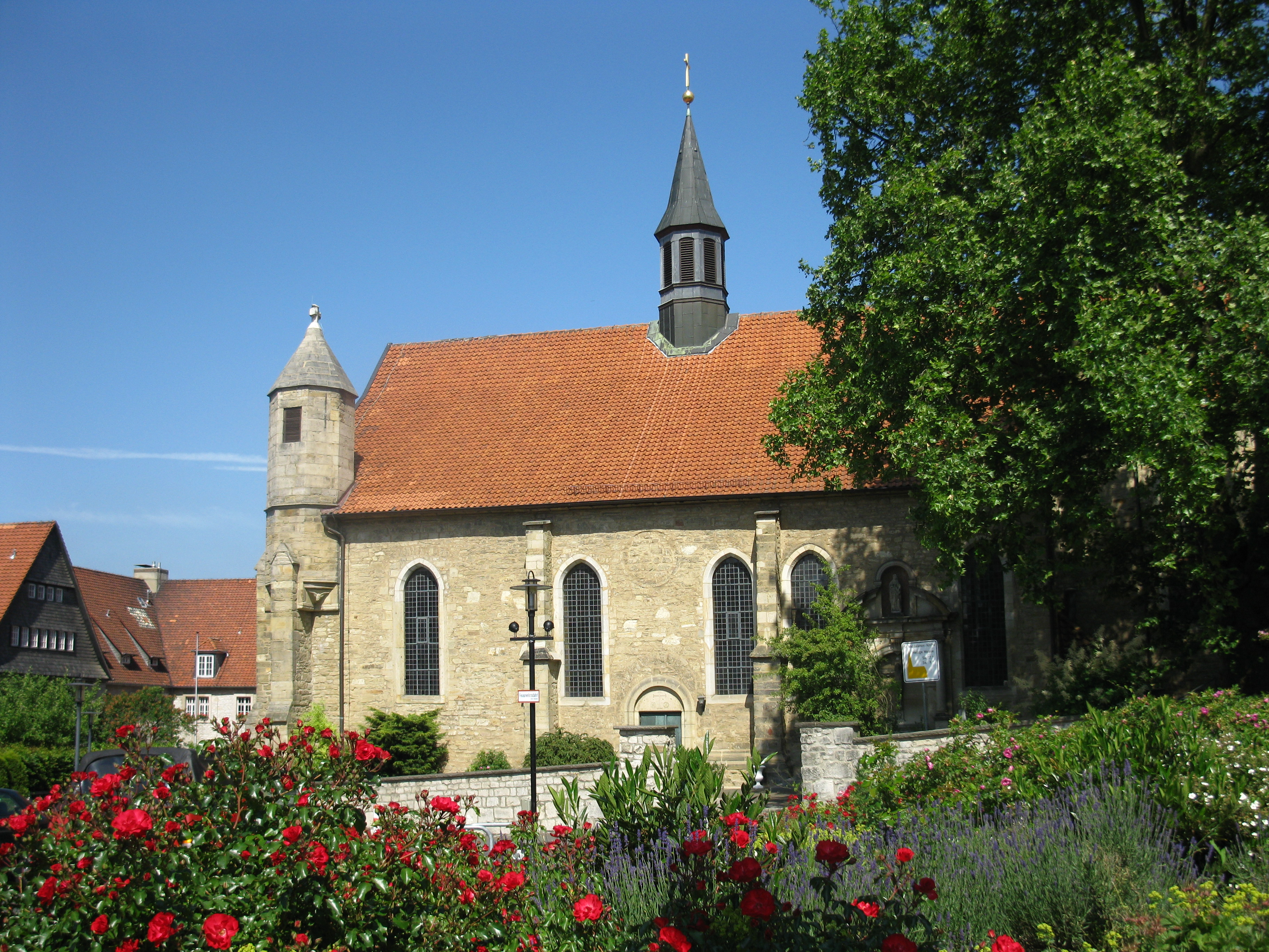 Saint Magdalena Church, Hildesheim